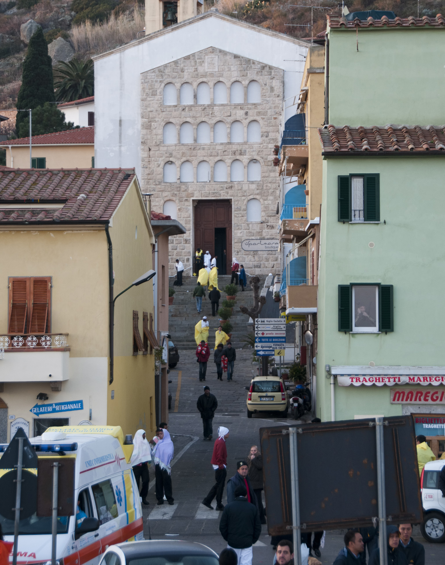 Collision of Costa Concordia